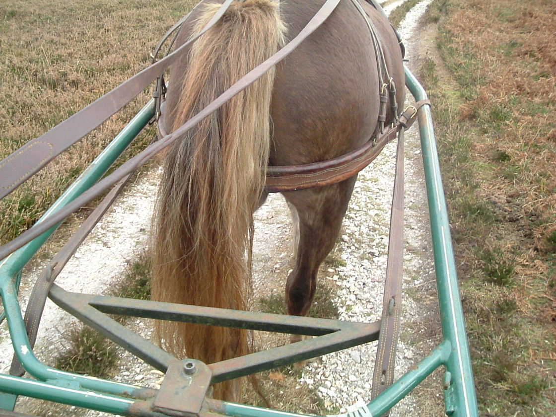 A swingletree in use in a light training cart. The swingletree is the triangular piece in the foreground and the traces are the leather straps leading forward from this. The straps leading out of the left side of the photo are the reins, and the strap below the tail of the horse is the breeching. This triangular swingletree was made to an individual design by the uploader: they are more commonly a simple bar.